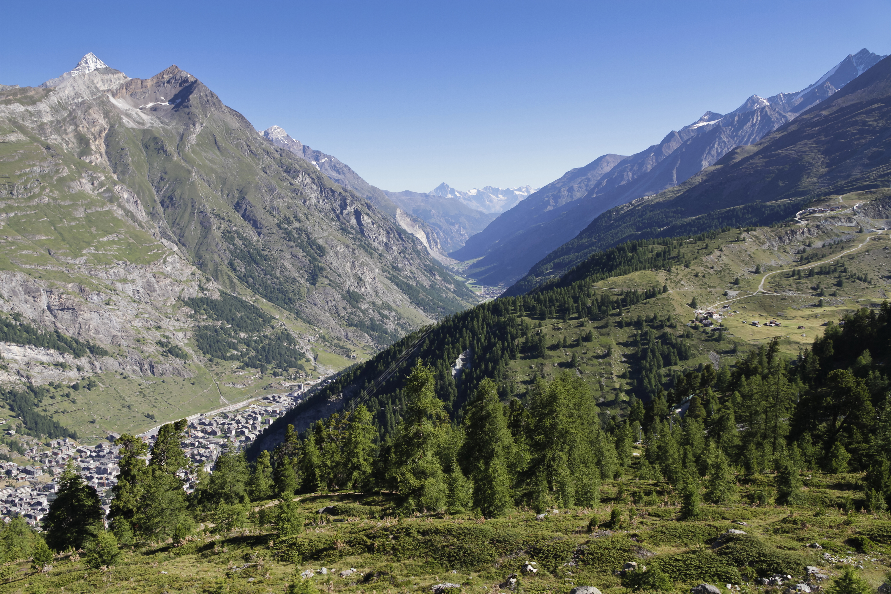 A view to Mattertal towards north from a mountain side between Zermatt and Gornergrat in Wallis, Switzerland in 2012 August.